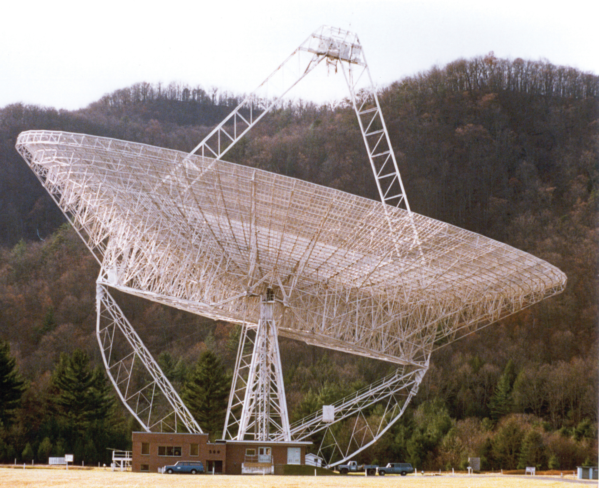 This is the last photograph of the 300-foot showing it intact. It was taken on the afternoon of November 15, 1988, hours before the giant dish collapsed.